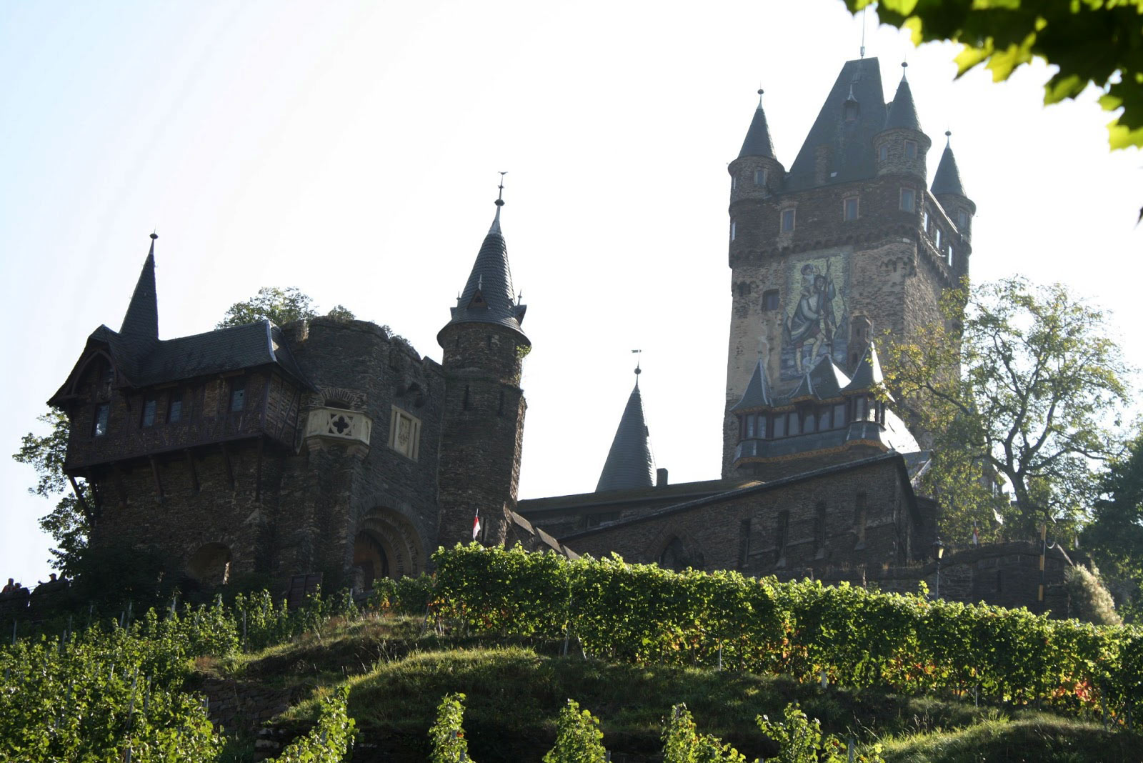 Cochem Imperial castle, Moselle region, Germany.